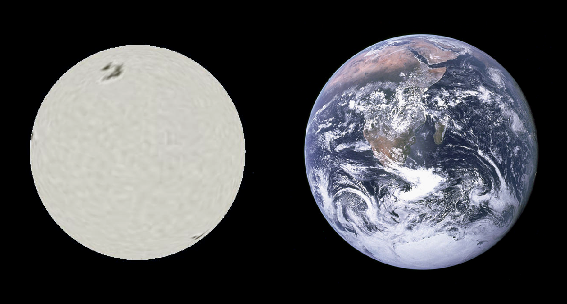 Sirius B and Earth in scale.